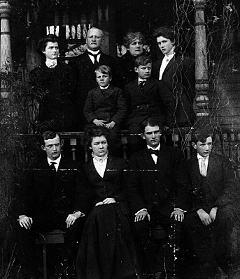 Virginia Supreme Court of Appeals Justice Stafford Gorman Whittle, his wife Ruth Staples Drewry Whittle, and their children. Top row, left to right: Ruth Drewry Whittle; Judge Stafford G. Whittle; Ruth Staples Drewry Whittle; and Elizabeth Sinclair Whittle. Middle row, left to right: Randolph Gordon Whittle; William Murray Whittle. Bottom row, left to right: Stafford Gorman Whittle Jr.; Flora Redd Whittle; Henry Drewry Whittle and Kennon Caithness Whittle.